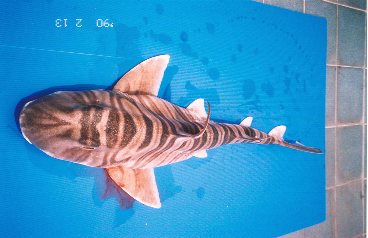 Zebra bullhead shark (Heterodontus zebra) at Songkhla Fishing Port, Thailand